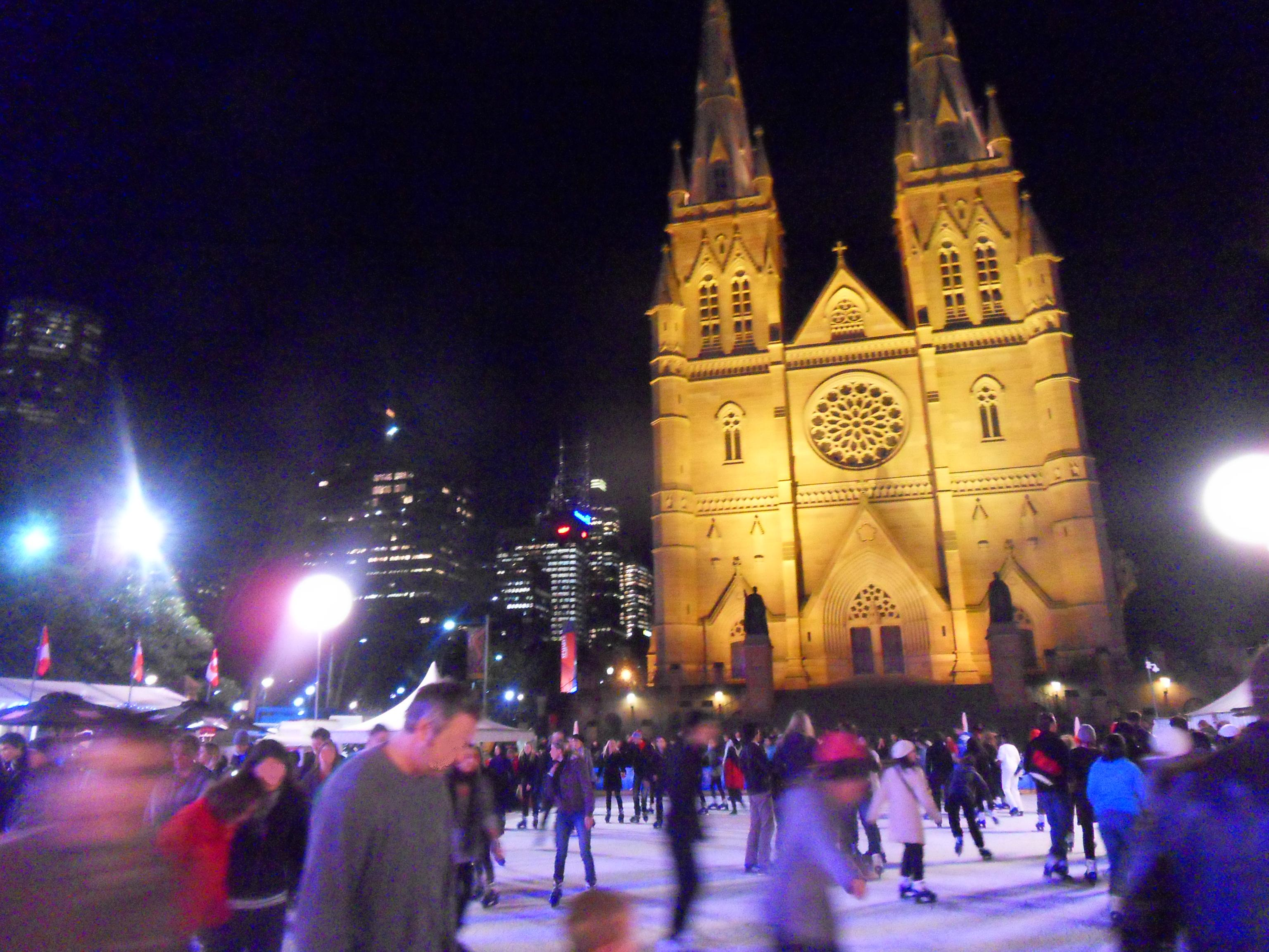 Public outdoor Ice Skating outside St Mary's Cathedral in Sydney, Australia